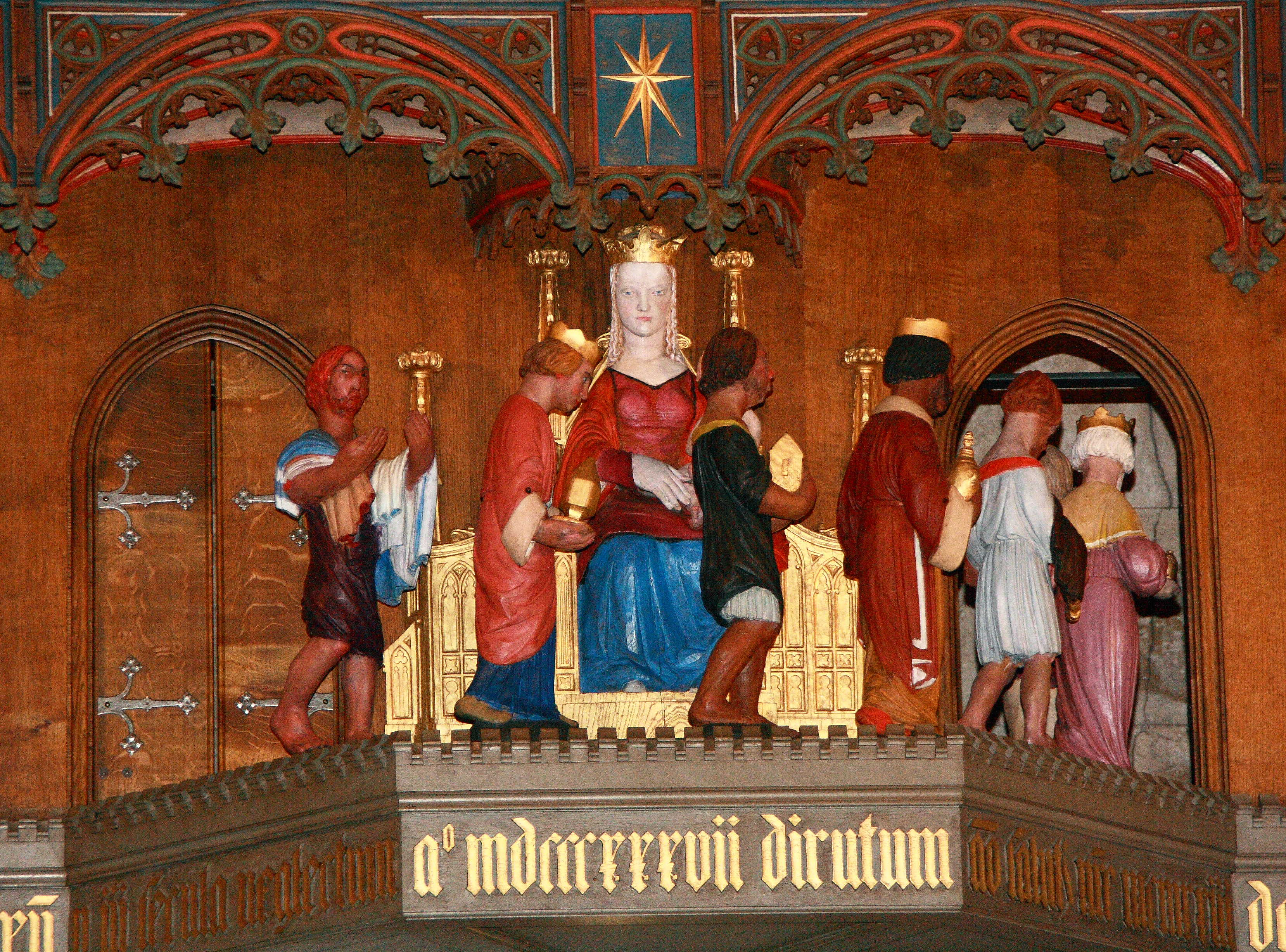 Detail of the astronomical clock at Lund´s cathedral.